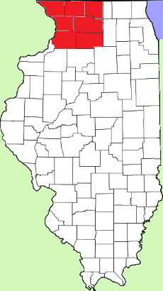 Map of Illinois counties with counties containing schools in the Northwest Upstate Illini Conference highlighted in red